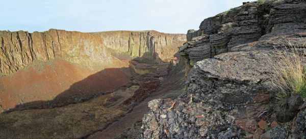 Owyhee River Wilderness in Idaho.